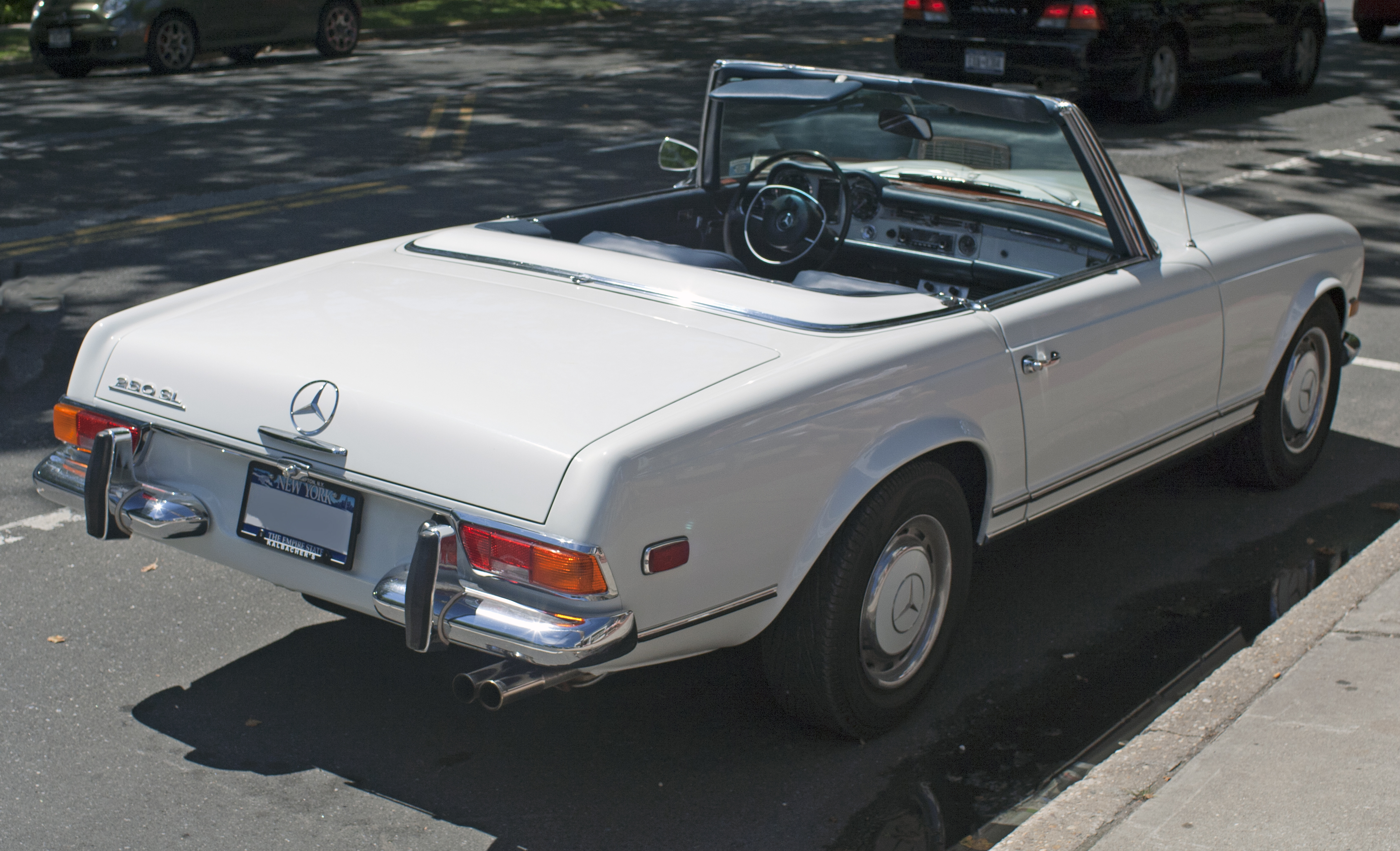 1967 Mercedes-Benz 250SL, with manual transmission. This is the facelift version with some dashboard changes and more padding in the steering wheel, and reflectors on the side panels.